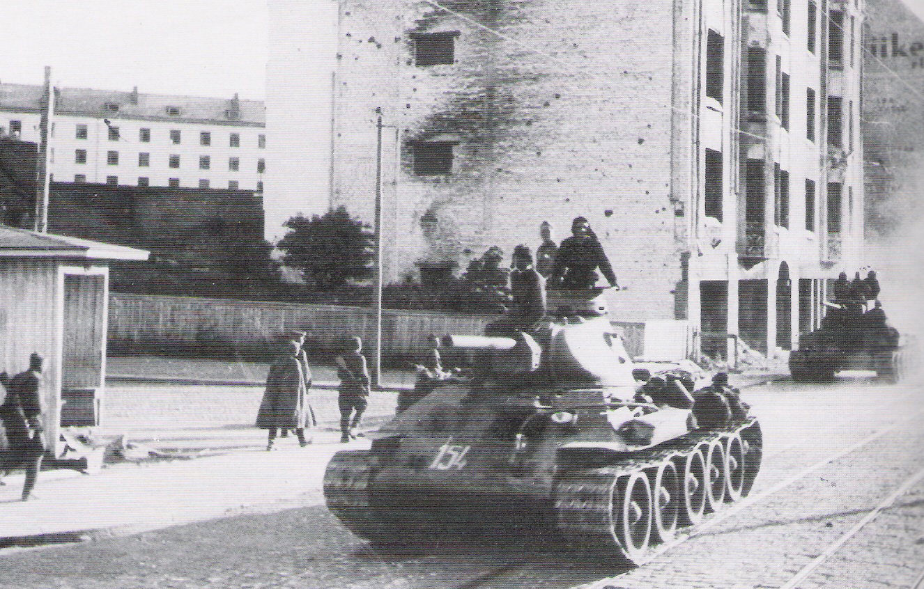 Tanks of the Leningrad Front in action (Baltic offensive 1944)